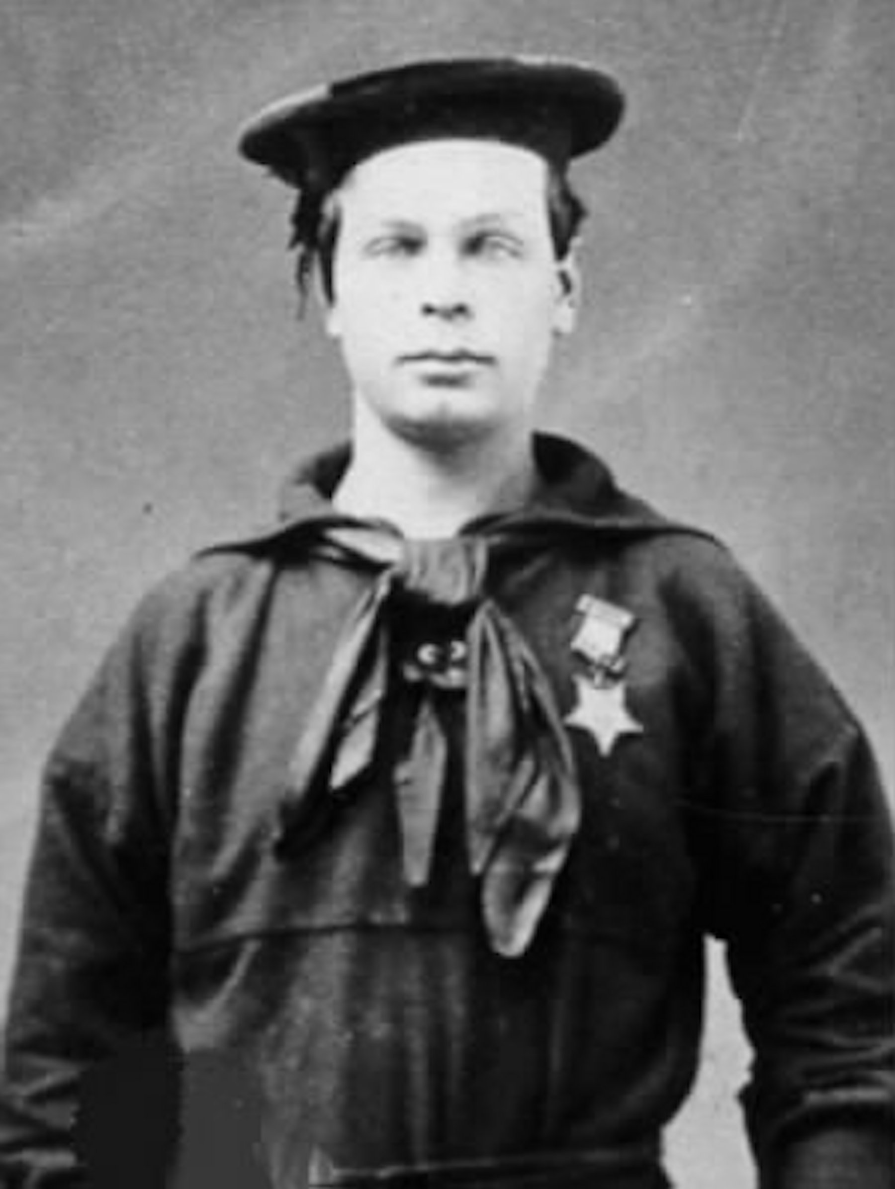 Photo identified as possibly Medal of Honor winner Edward Farrell c1864